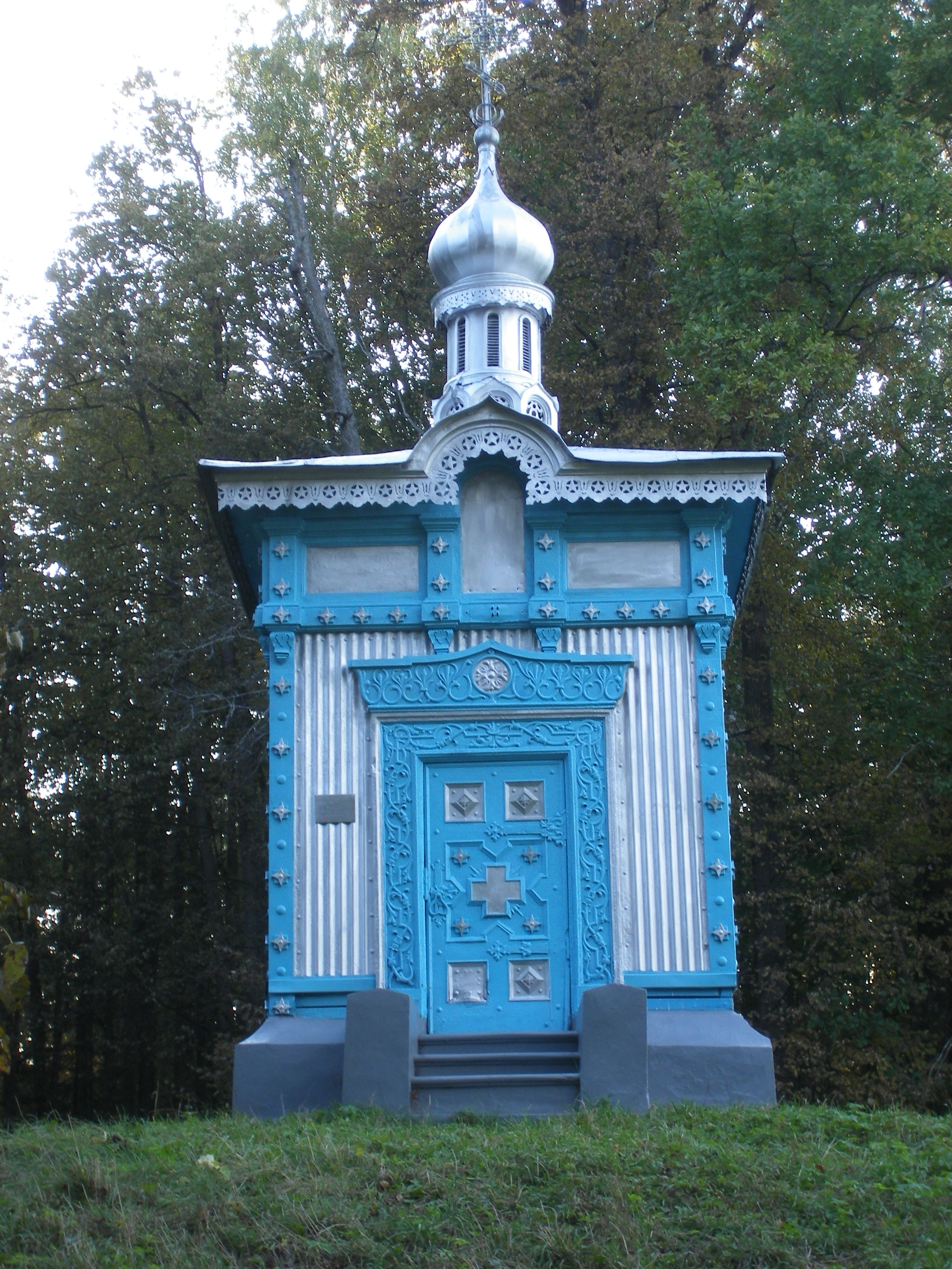 Burial place of D.I.Dubyago